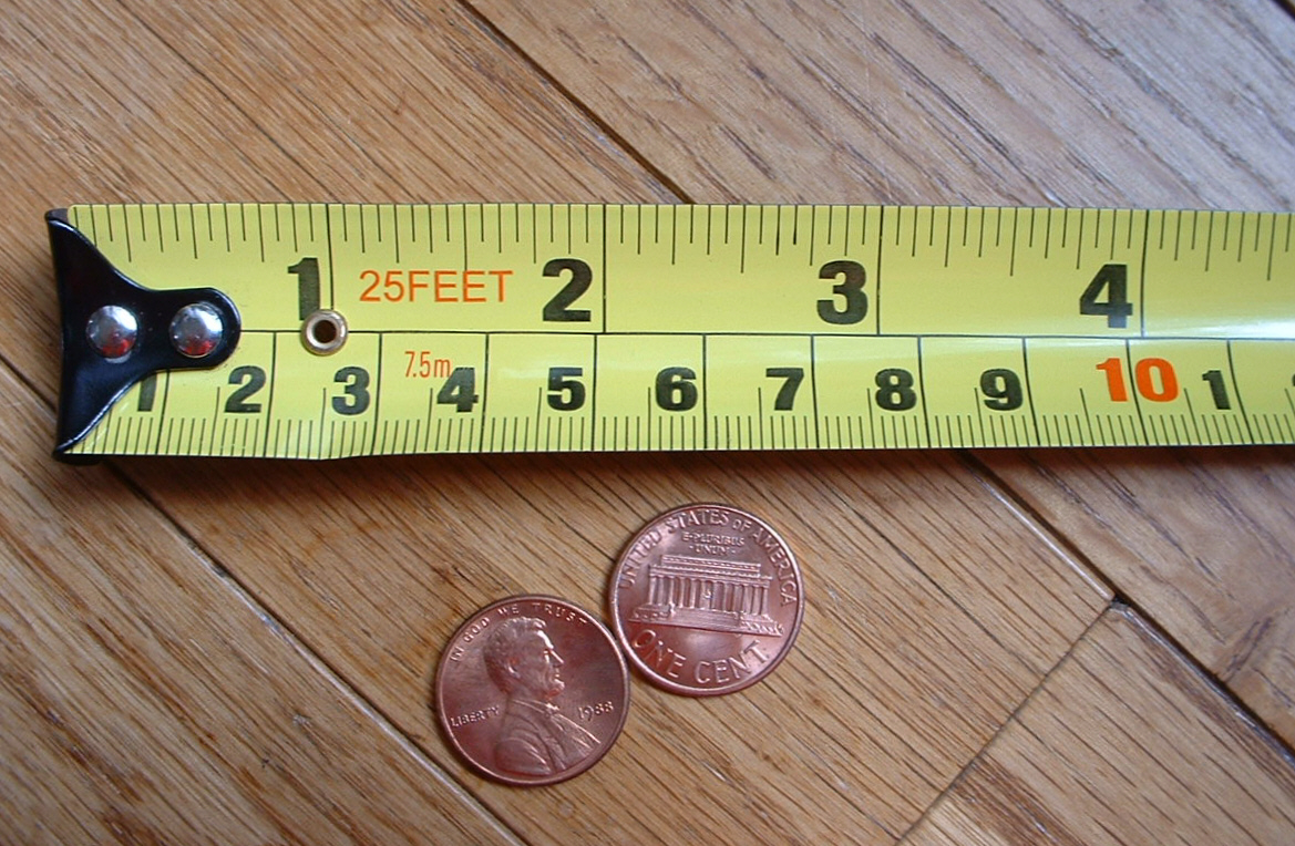 Measuring Tape (Inch+Centimeters), US-Standard (but far less common than only Inch).